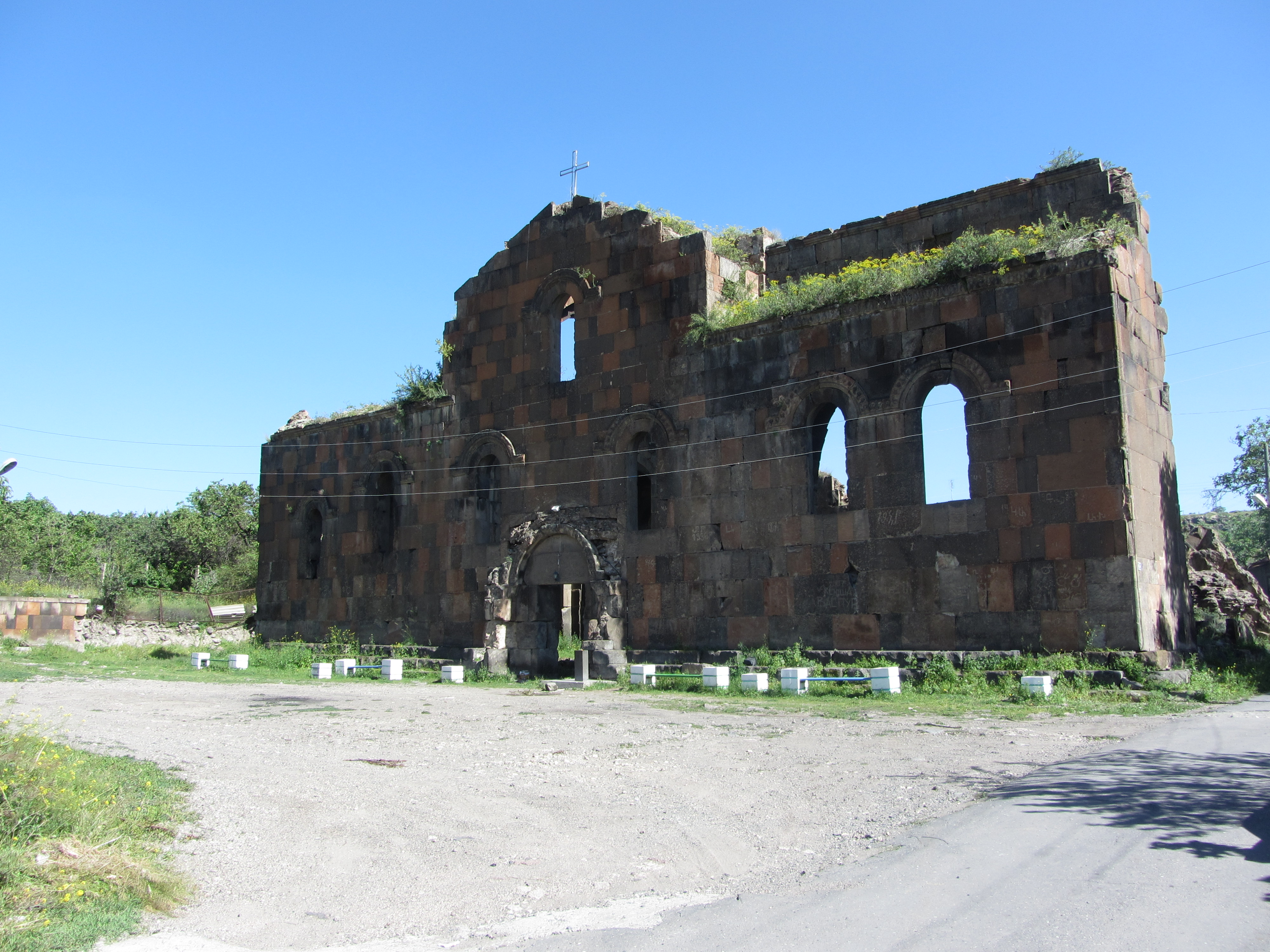 Ptghnavank monastery, 6-7c. 54/5